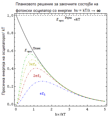 Diagram in Macedonian of the freeze-out high-energy oscillators.